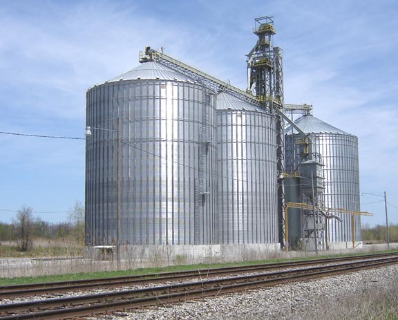 Country Star Grain Bins - Crestline, OH 2007. Photo by Mike Sharp.